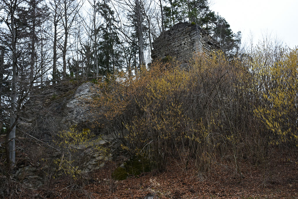 Forhtenek was built end of 13th century and abandoned after it was destroyed in peasant riots in 1635.